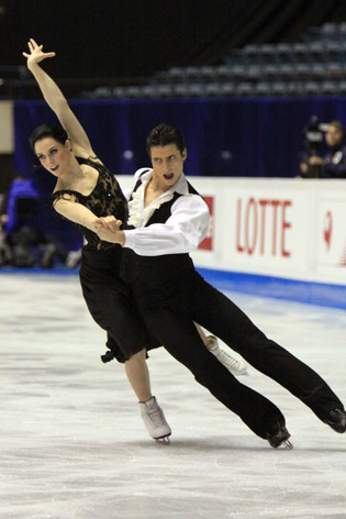 2009 Grand Prix of Figure Skating Final - Tessa Virtue and Scott Moir